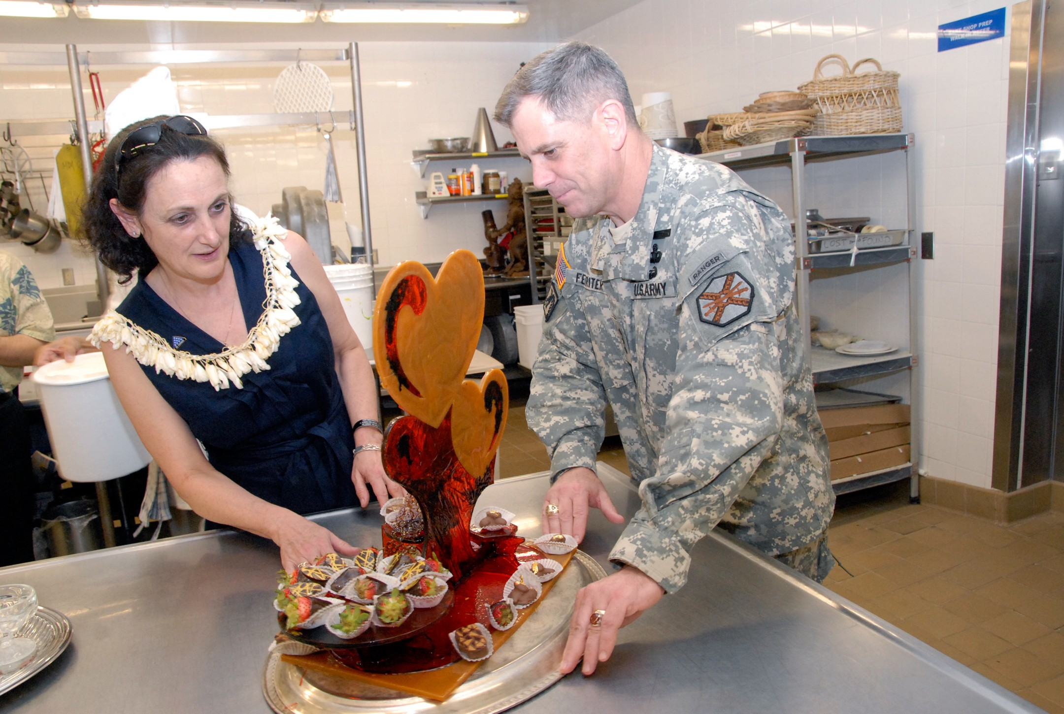 Lt. Gen. Michael Ferriter and his wife, Margie, admire a table decoration made of pulled sugar at the Hale Koa Hotel at Fort DeRussy. The Ferriters toured the Armed Forces Recreation Center, Tuesday.